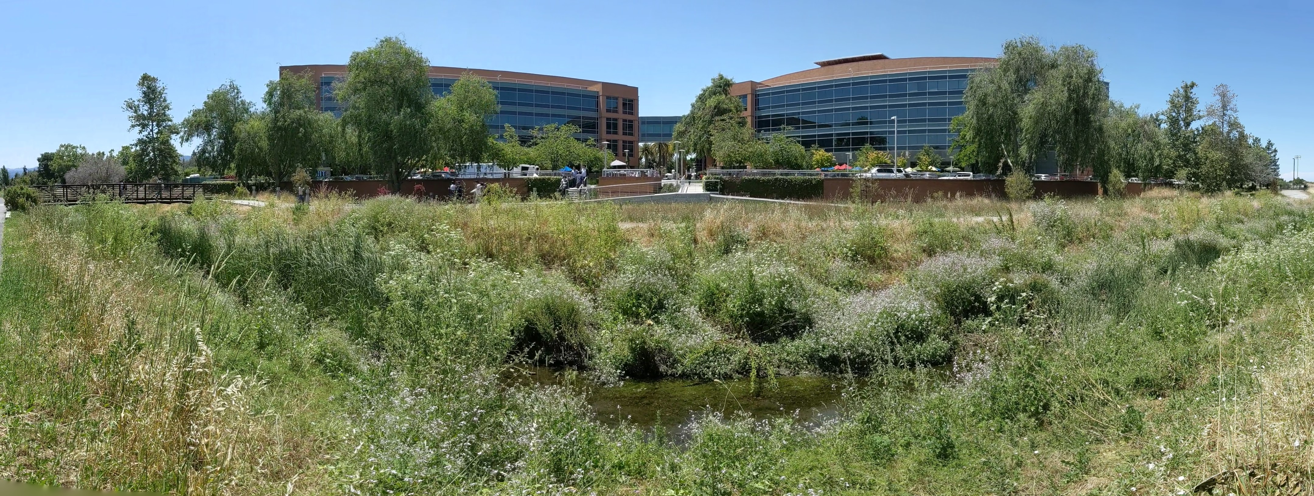 Alza Plaza pano from Permanente Creek Trail, Mountain View, California